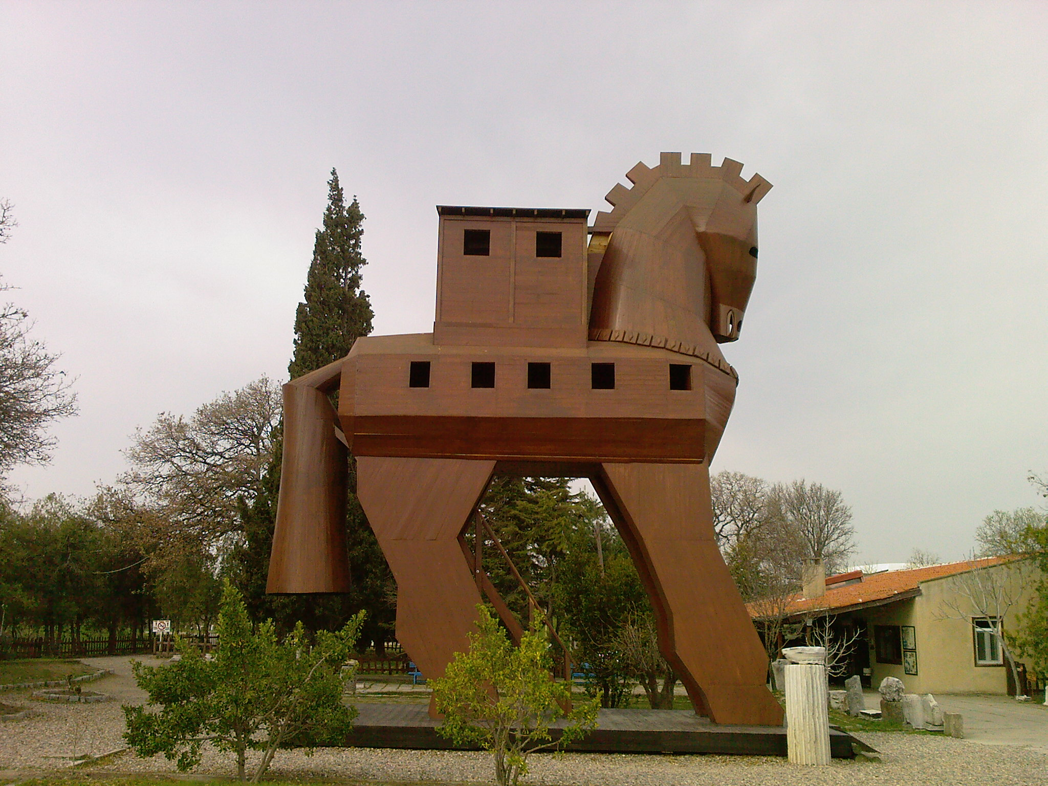 Troian horse